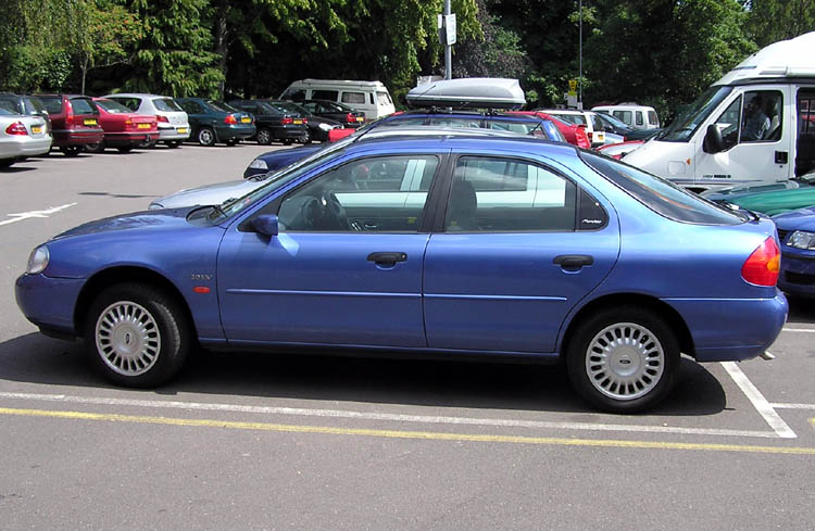 Ford Mondeo LX 2.0 16V,, registered in 1999 or 2000, photographed in Dunster, North Devon, England. Taken by Adrian Pingstone in July 2004 and released to the public domain.